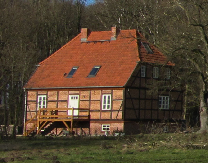 Former warehouse in Spriehusen, district Nordwestmecklenburg, Mecklenburg-Vorpommern, Germany